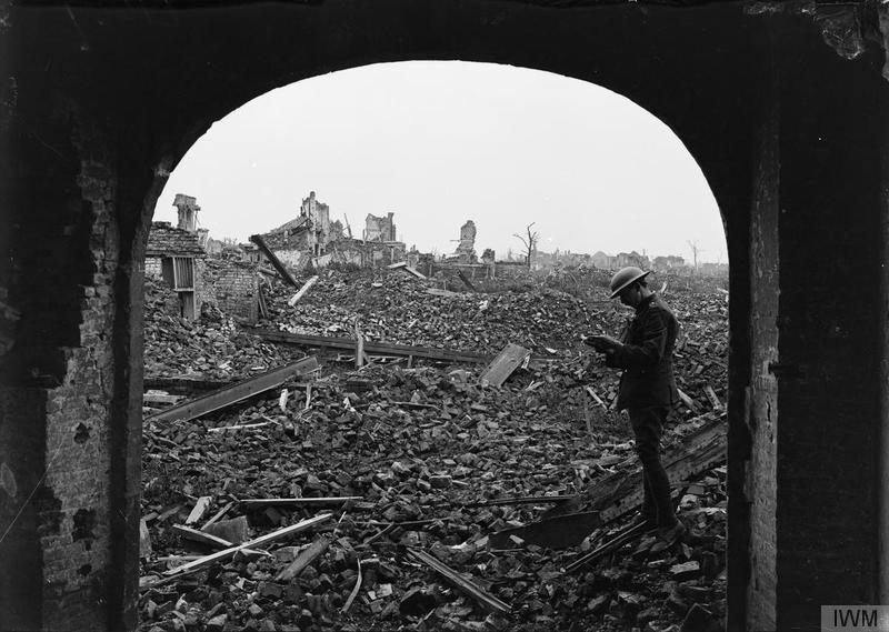 The Hundred Days Offensive, August-november 1918 Ruins of La Bassee where Germans retired from on 2nd October. (24 October 1918)